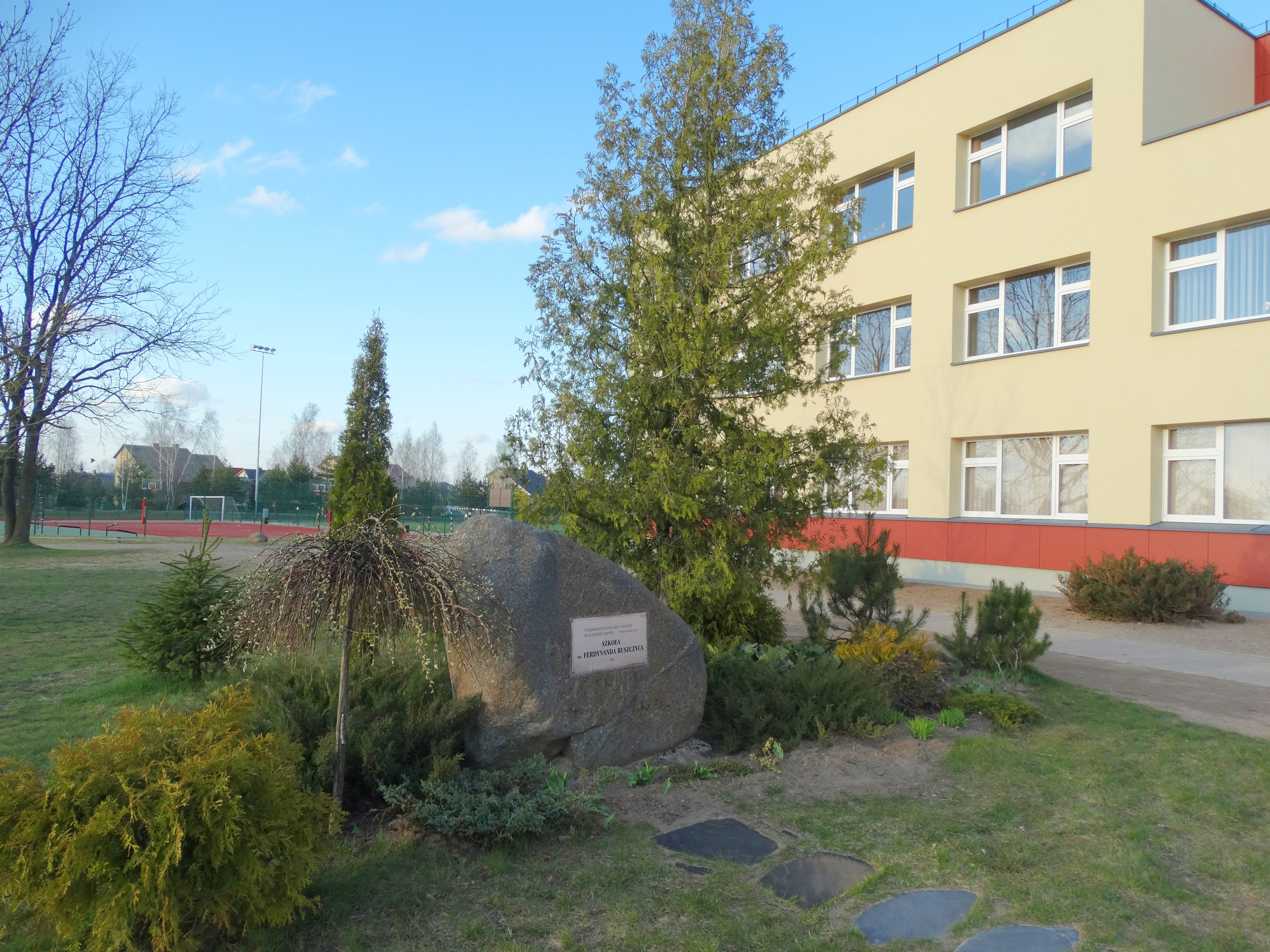 Ferdynand Ruszczyc Gymnasium, Rudamina, Vilnius district, Lithuania